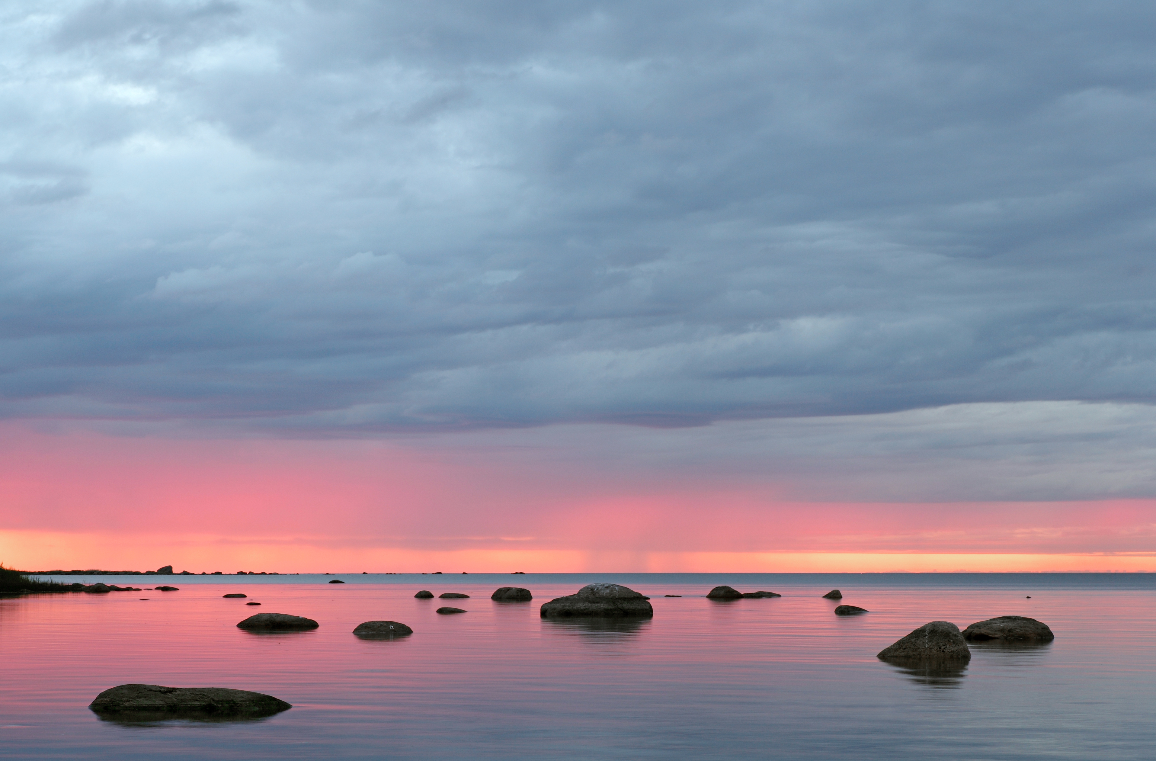 Lahemaa National Park. Hauaneeme bay at Pärispea village.